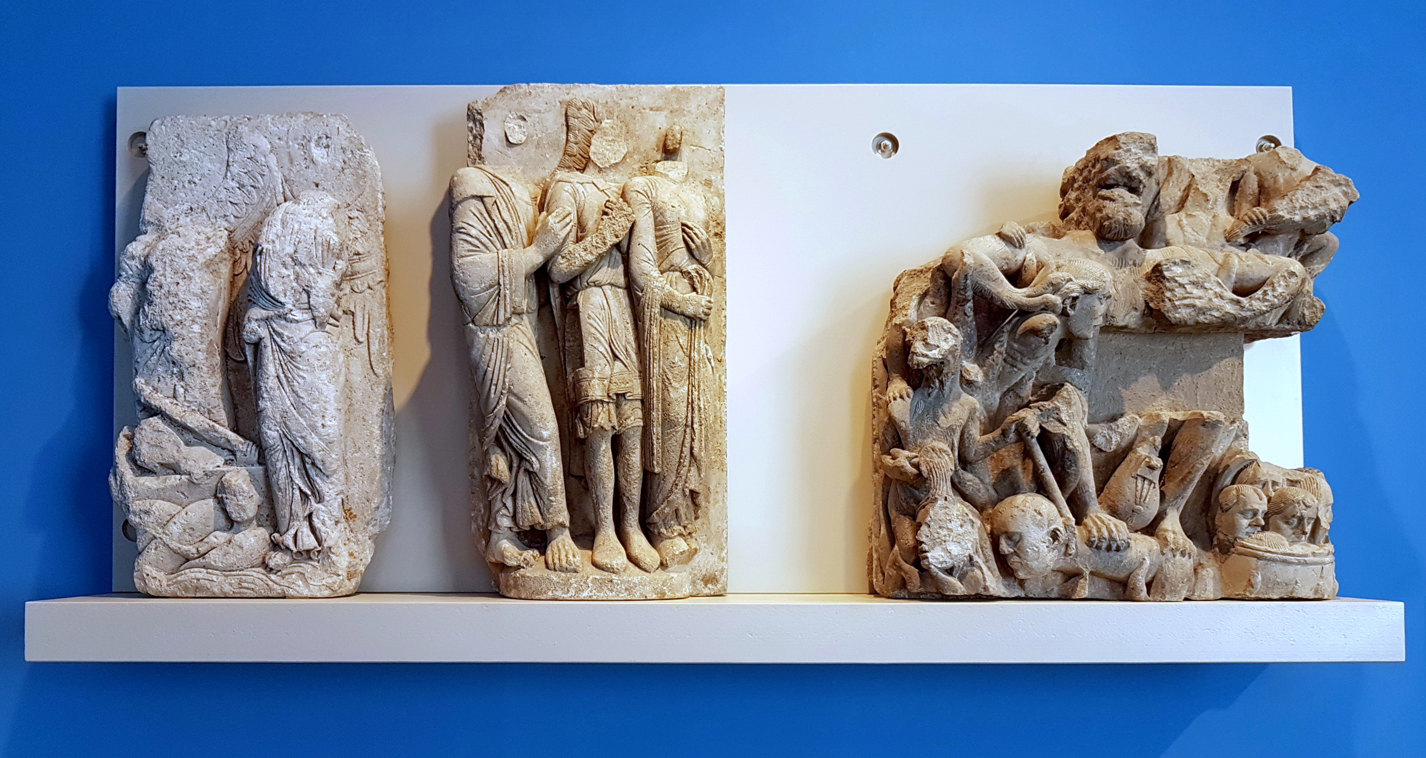 Three limestone fragments of a choir screen (ca. 1200-20) in the collection of Rheinisches Landesmuseum in Bonn, Germany. The reliefs were probably part of a late-Romanesque or early-Gothic choir screen in Our Lady's in Andernach. The choir screen was demolished in 1750. The fragments were discovered under the church floor in 1882. They are considered the work of the so-called Laacher Samsonmeister.